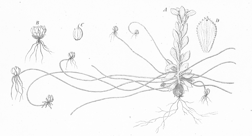 Saxifraga flagellaris ssp. platysepala; A flowering plant with some of its runners; B older isolated layer rosette; C one of the lowermost leaves on a layer rosette; D leaf from the flowering stem